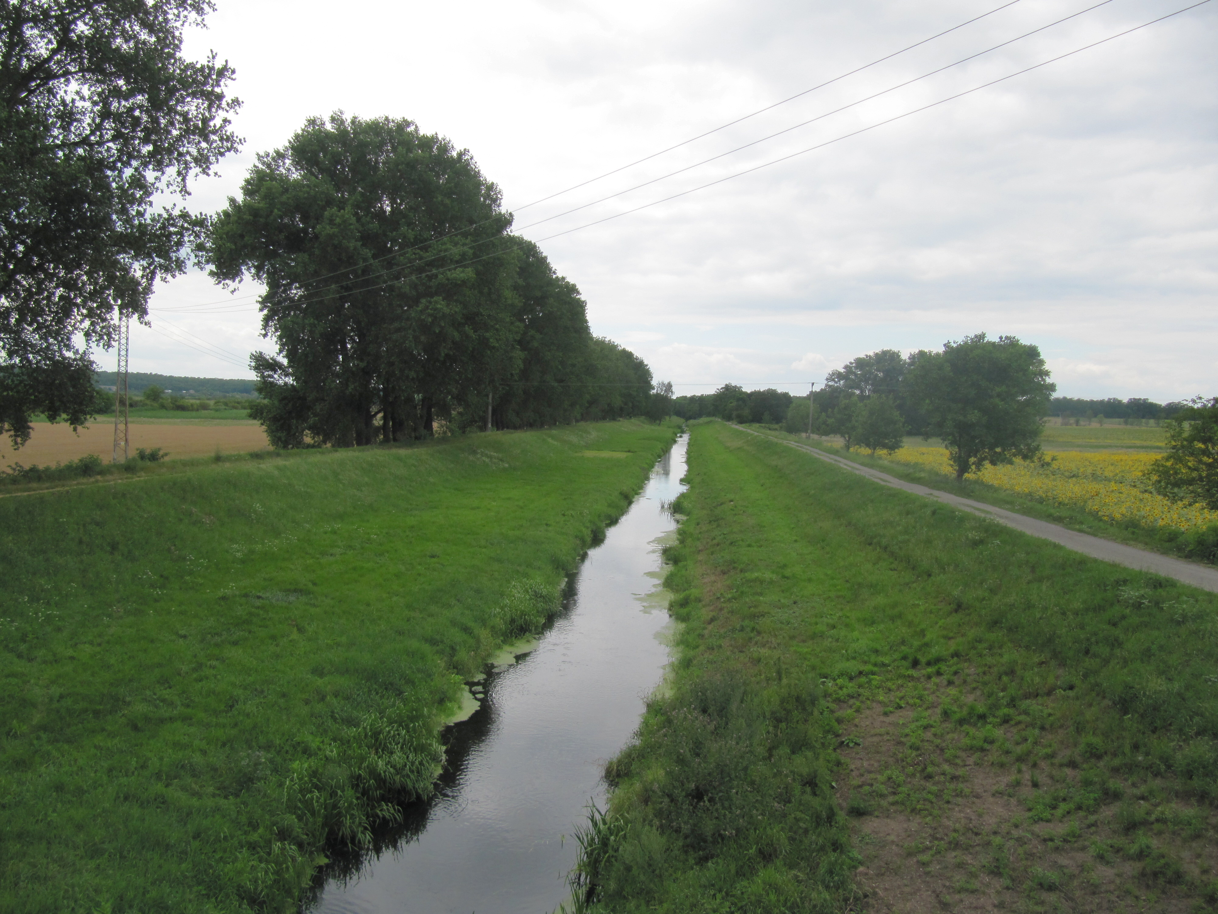 Hrušovany nad Jevišovkou in Znojmo District, Czech Republic. Jevišovka River.